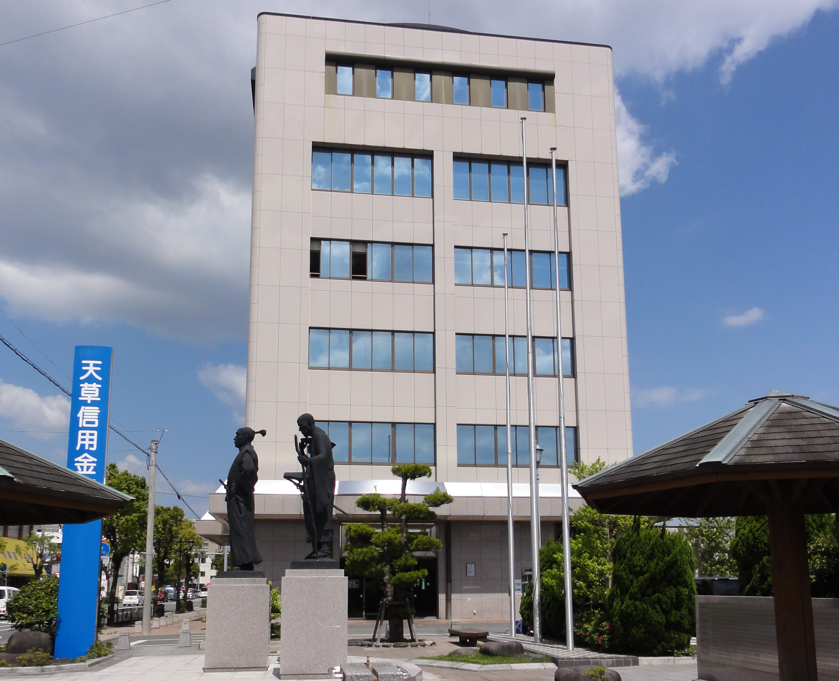 Amakusa shinikn bank,Kumamoto Pref., Japan